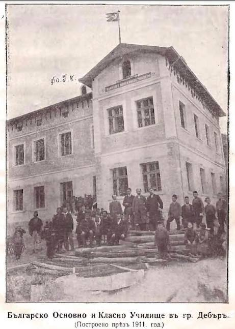 Bulgarian School in Debar.